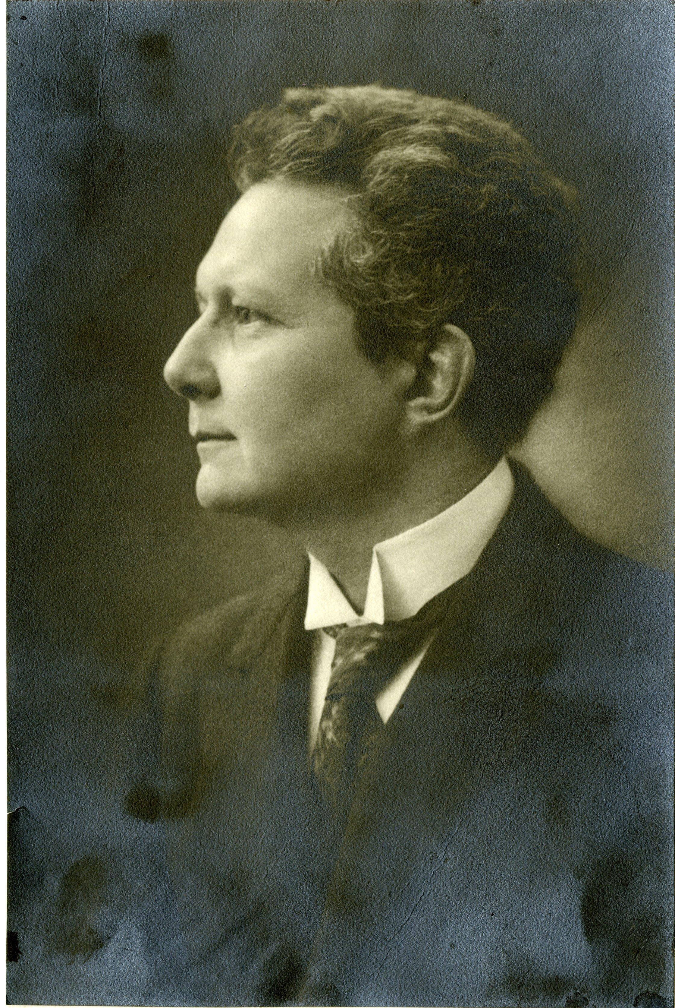 The Dutch writer P.J. d'Artillac Brill, around 1930